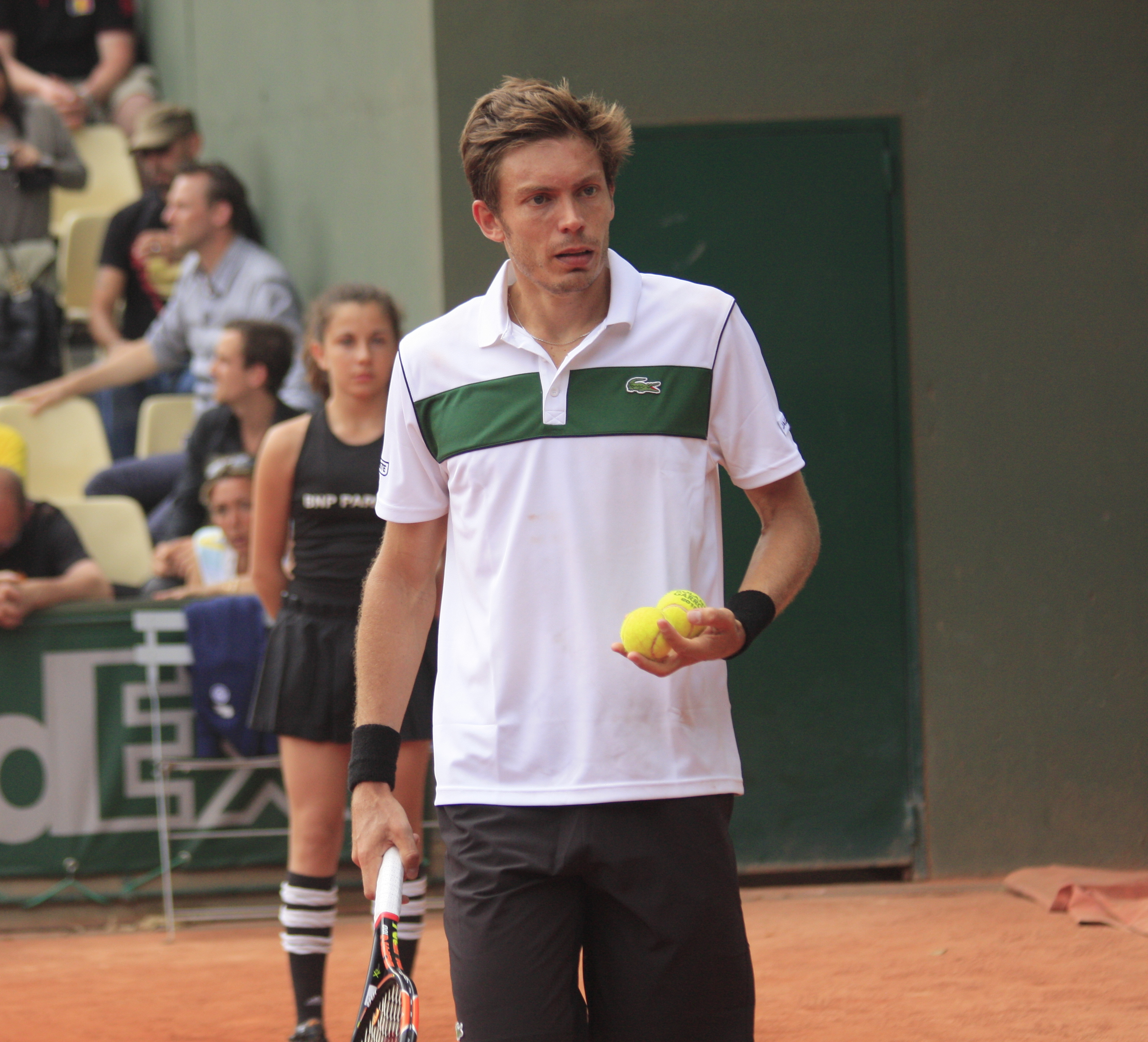 Nicolas Mahut during the first round of the 2015 French Open.